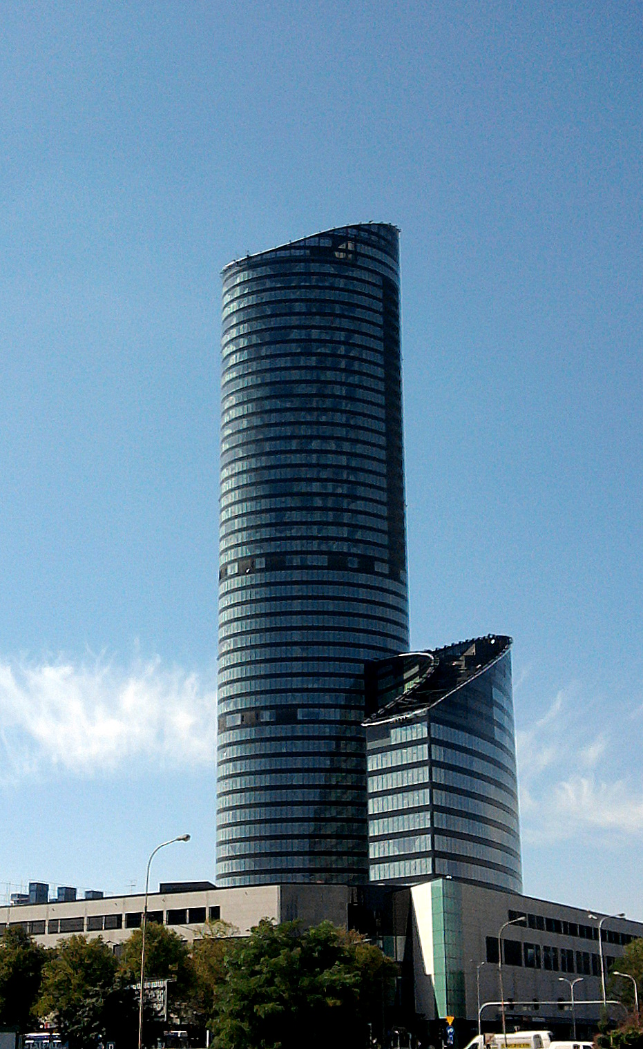 View at Sky Tower from Radosna street